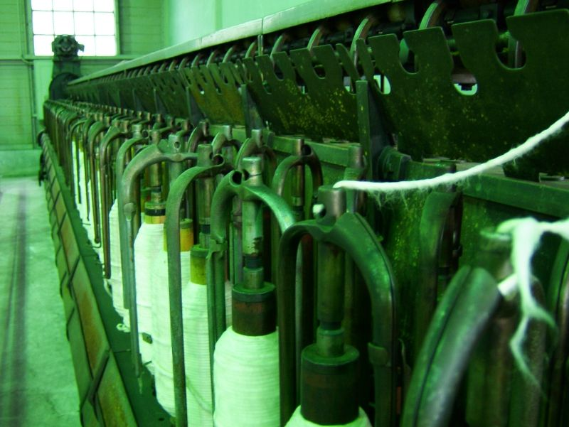 Shimbashi Factory of the Japan National Railways (The Machinery Hall) From the Meiji Mura village museum, Japan.